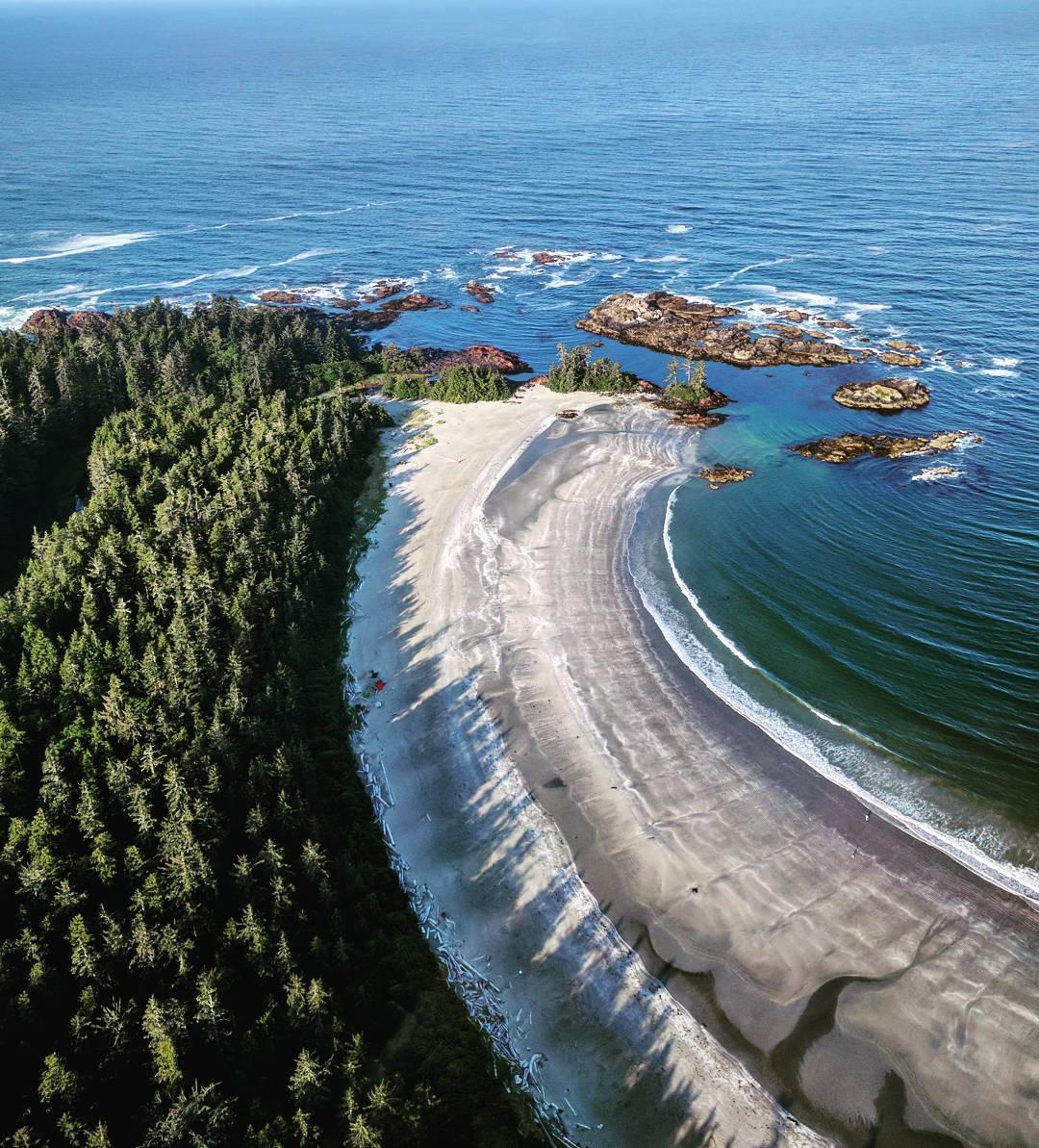 A view of Cow Bay Beach from a seaplane